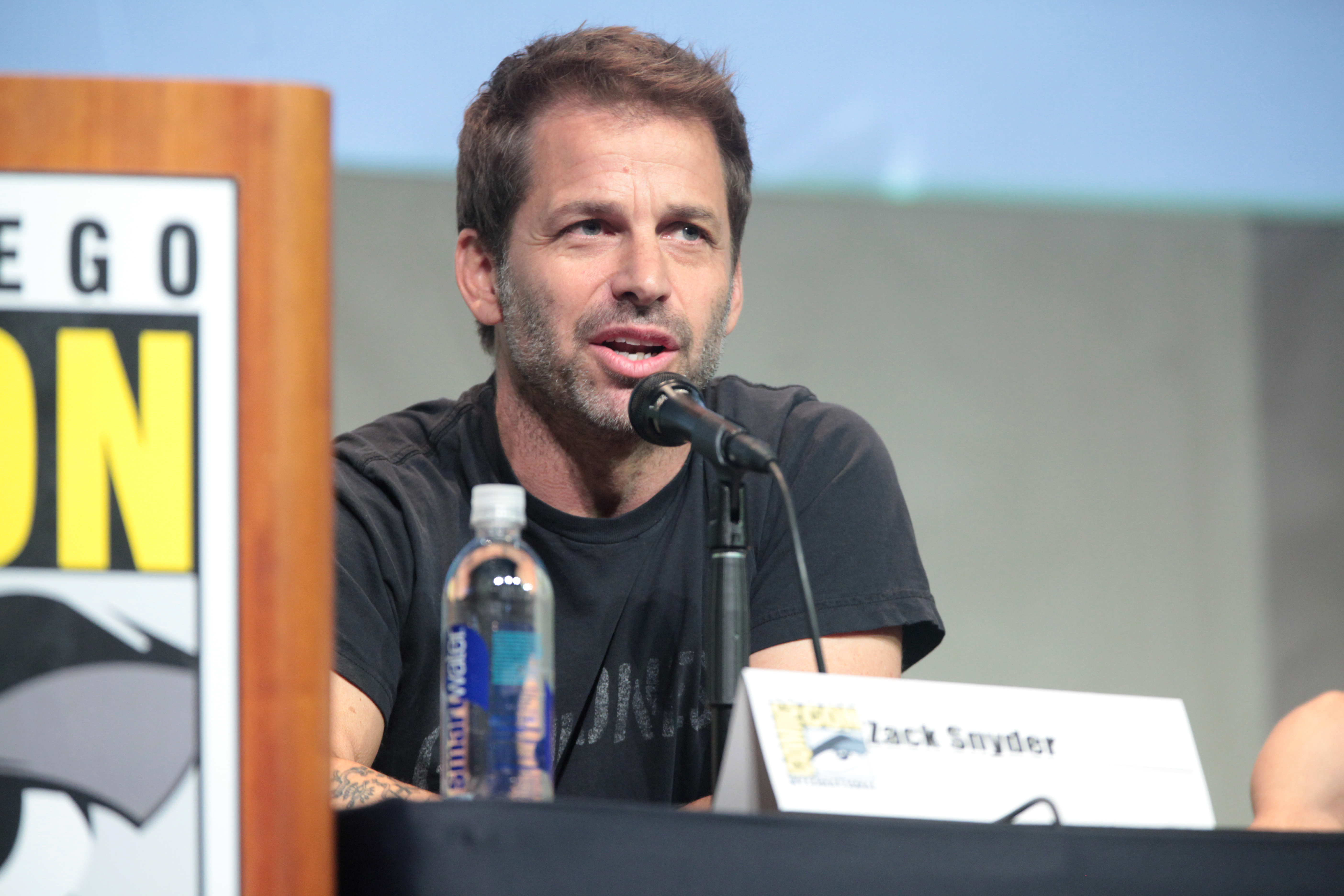 Zack Snyder speaking at the 2015 San Diego Comic Con International, for "Batman v Superman: Dawn of Justice", at the San Diego Convention Center in San Diego, California.